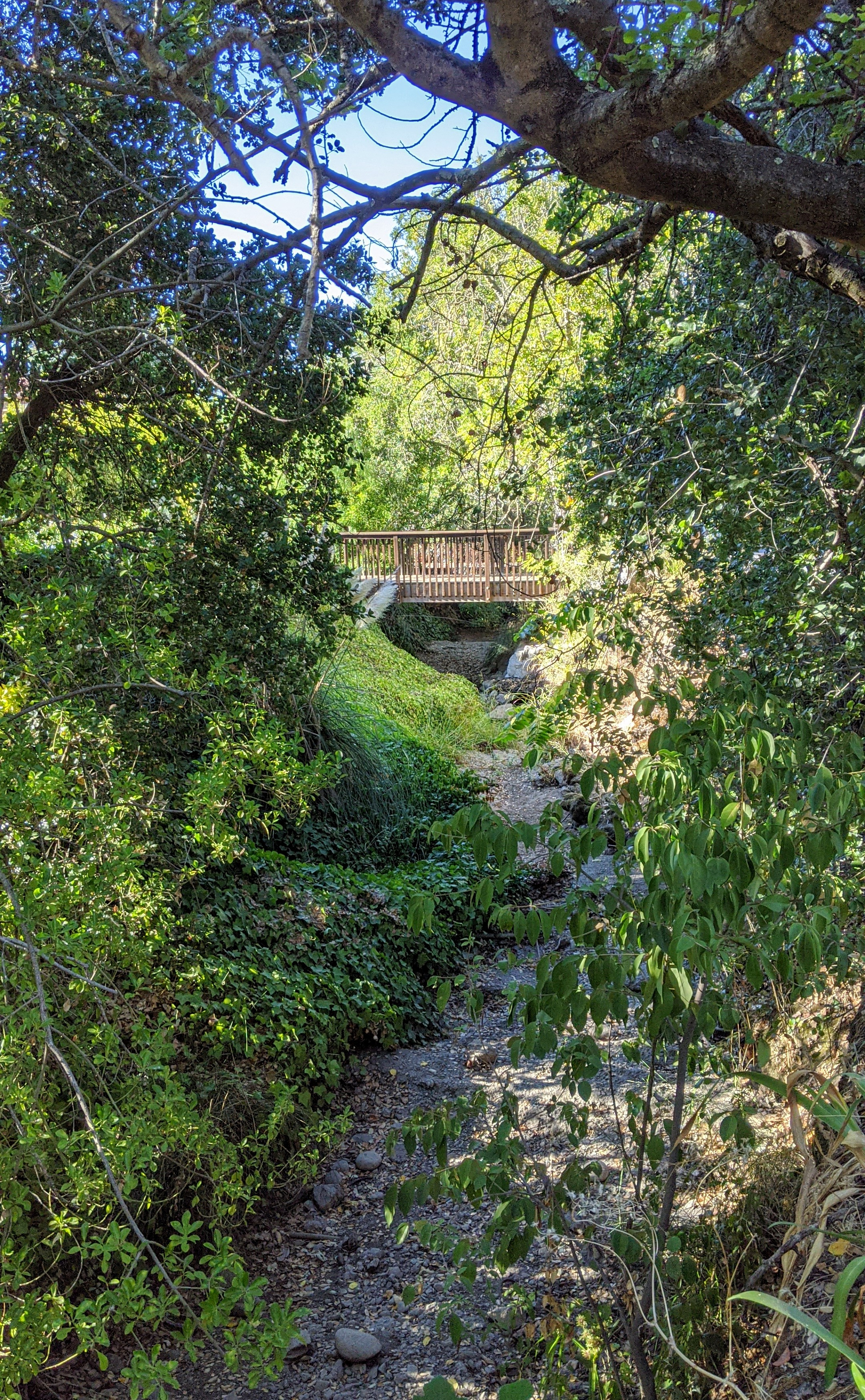 Barron Creek along Los Robles Avenue in Barron Park, Palo Alto; houses on the street have driveway bridges such as the one shown.